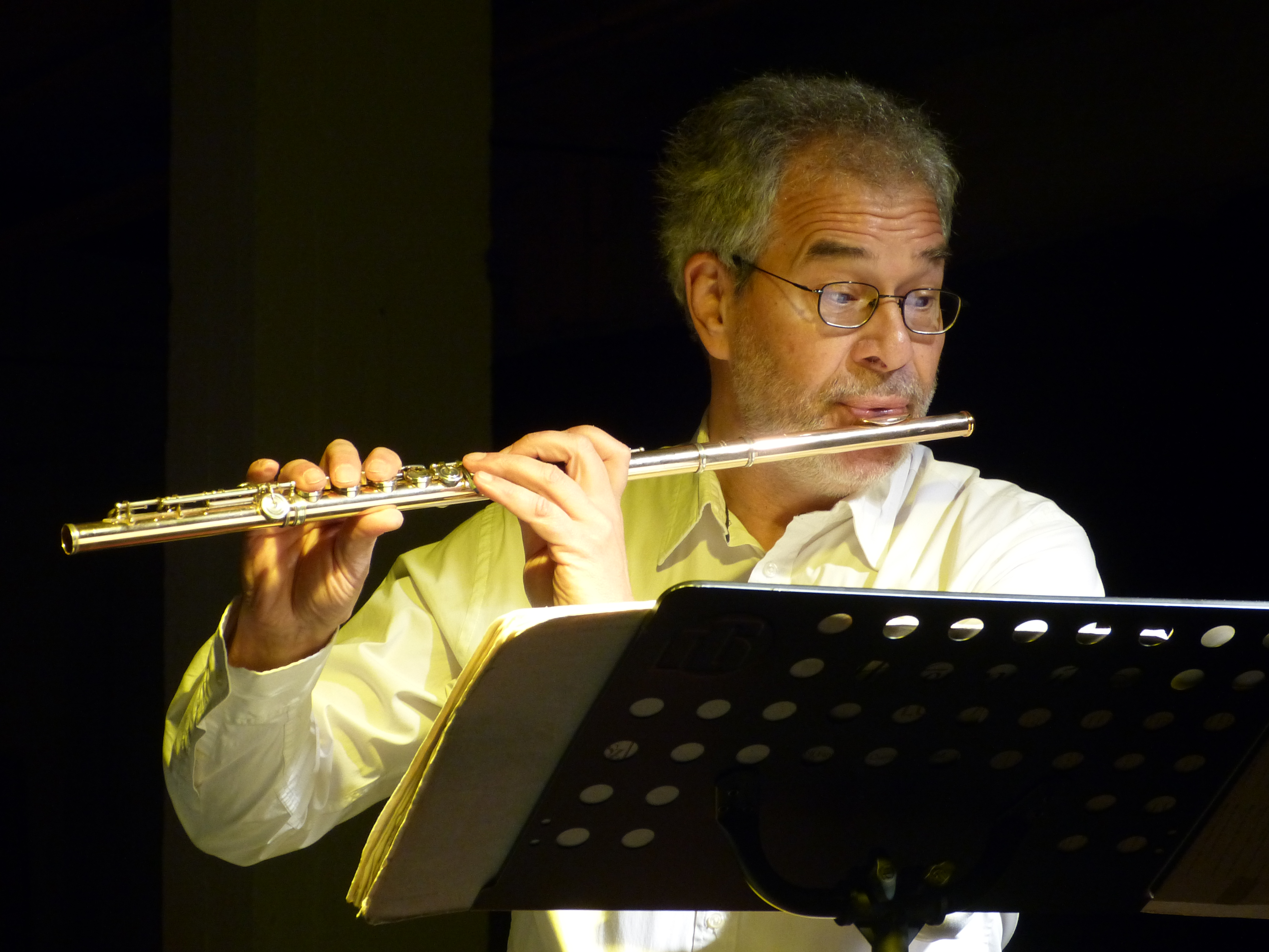 Hans-Martin Müller in solo concert at Rhenania Kunsthaus, Cologne, Germany, January 5th, 2014